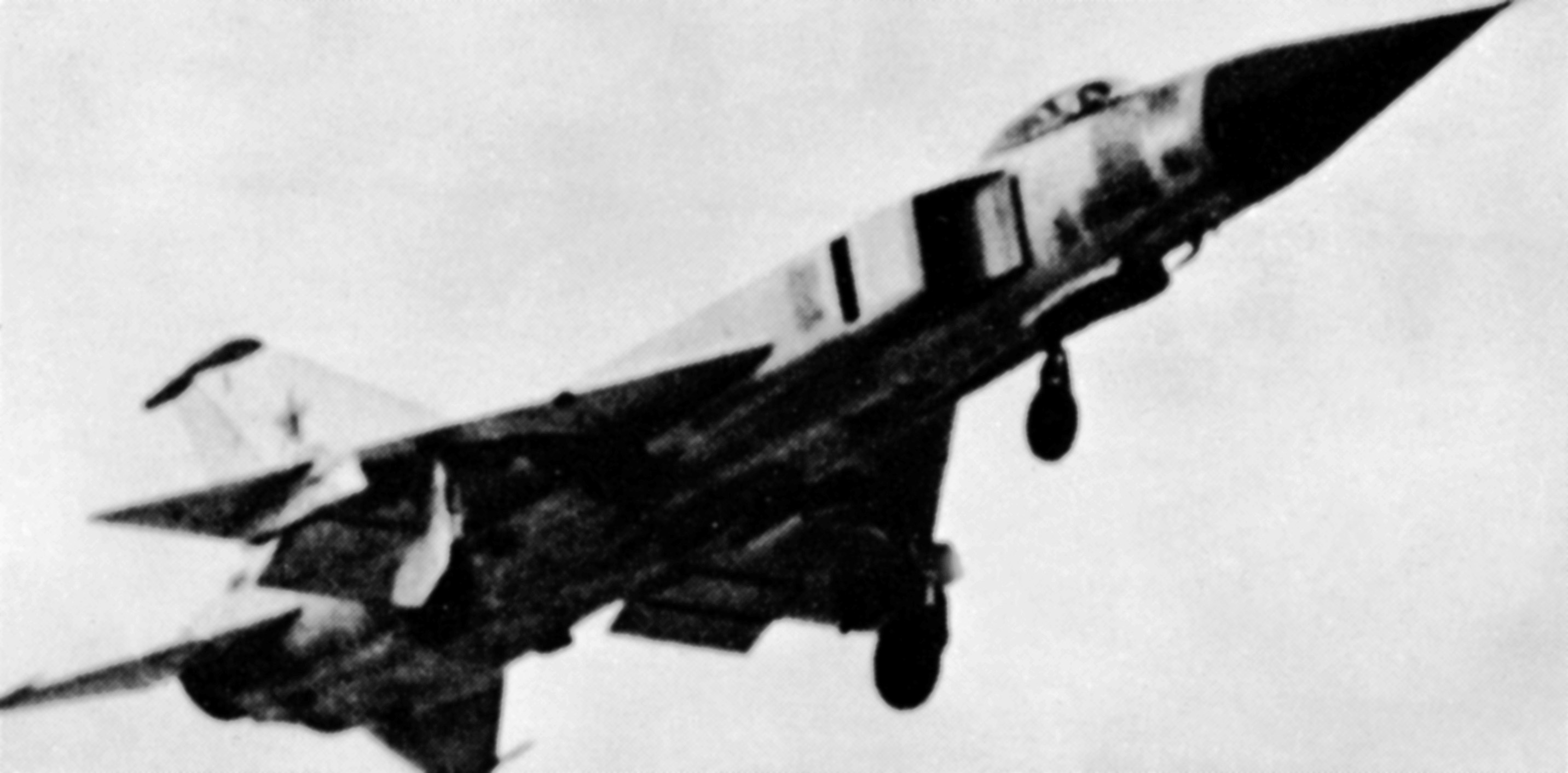 A left side view of a Soviet Su-15 Flagon-B fighter aircraft landing on a runway. (Substandard image). Date Shot: 1 Jan 1977